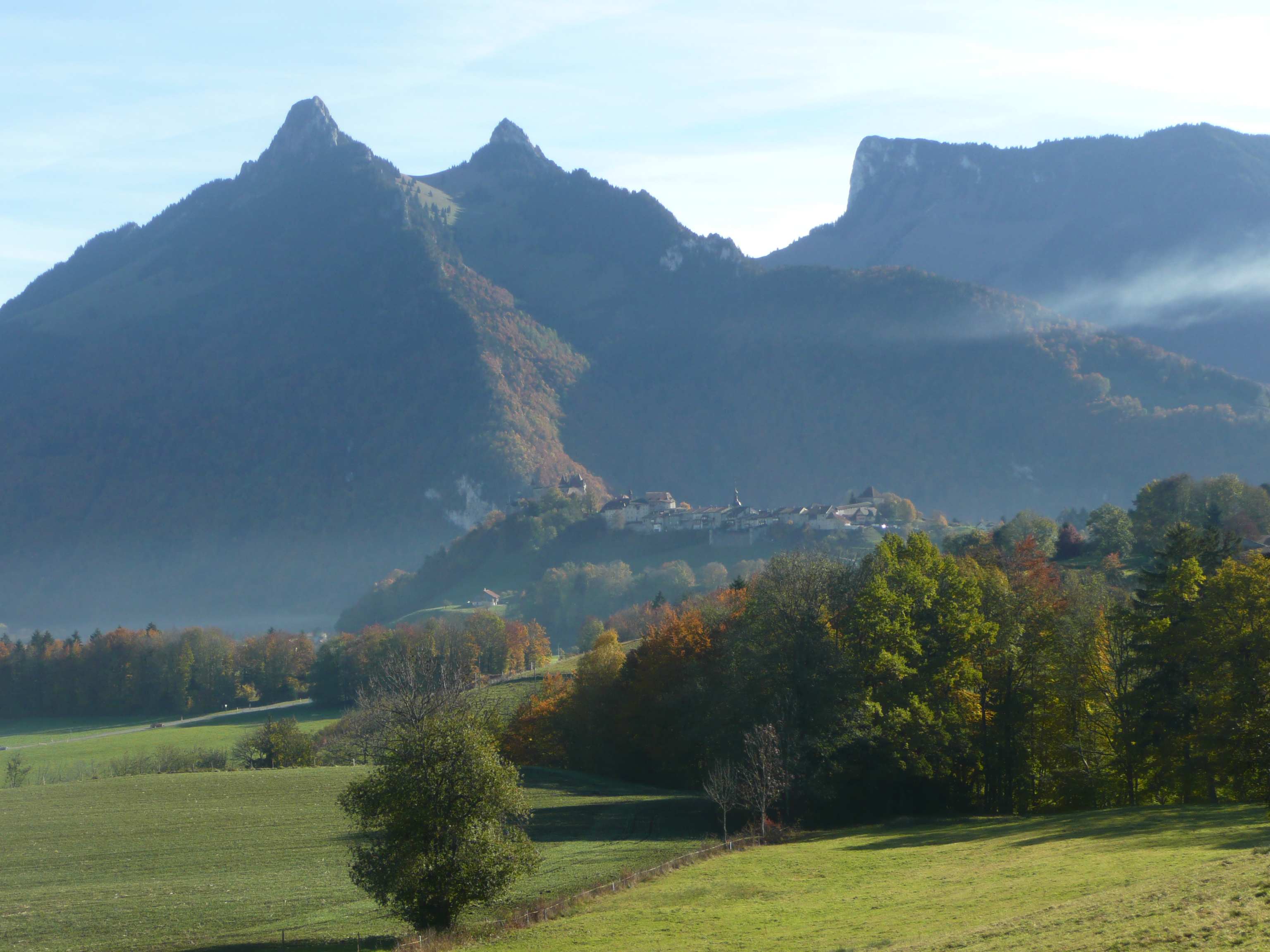 Château de Gruyères from Le Pâquier-Montbarry (Le Pâquier (Fribourg)) (autumn), Dent de Broc (1829 m), Dent du Chamois (1830 m), Dent du Buorgo (1909 m)